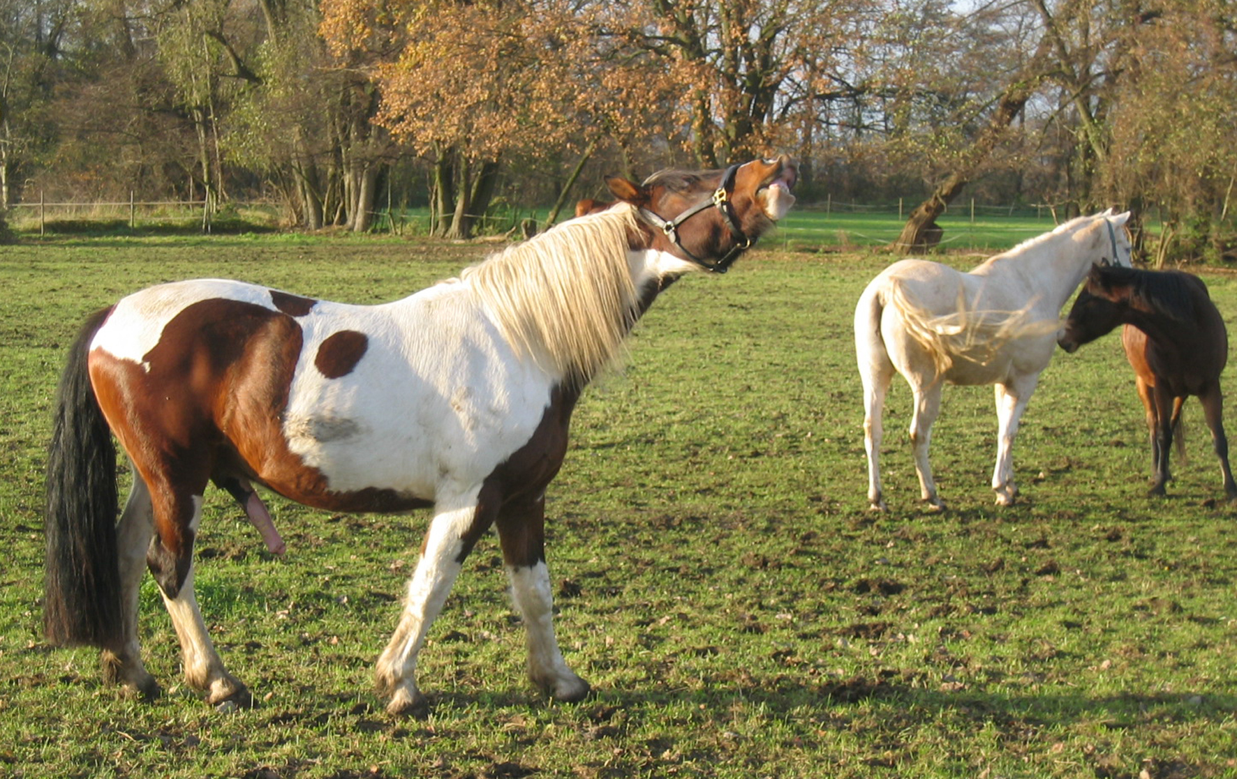 Stallion, typical behaviour during the breeding season (Flehmen response), taken at Altdorf, Rheinland-Pfalz, Germany